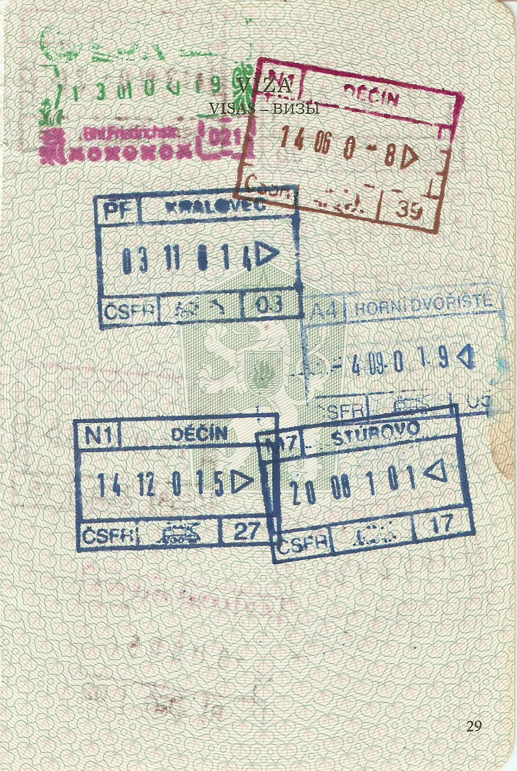 Passport stamps of ČSFR (Czech and Slovak federative republic) and Berlin Friedrichstrasse - early 1990.